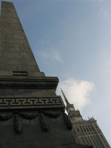 pillar with cultural palace in background